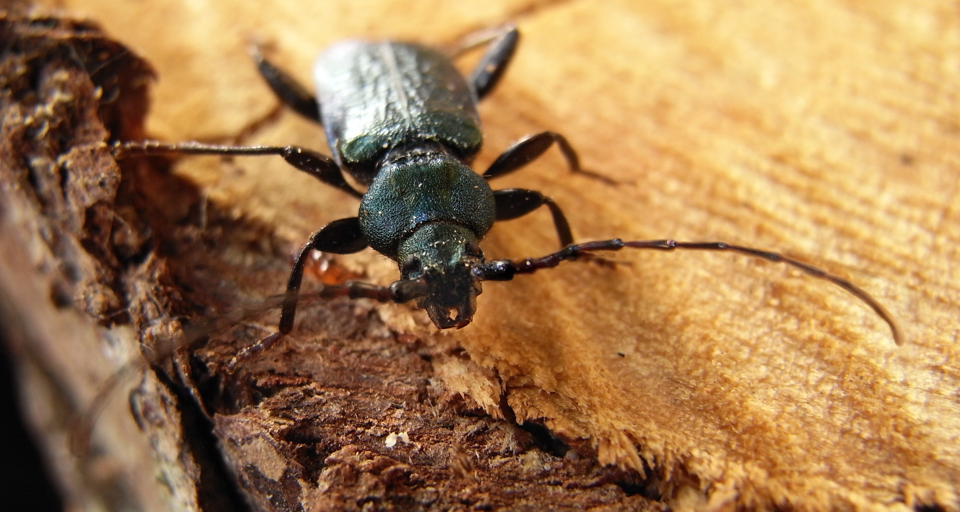 Callidium aeneum Ricoh R8